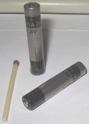 2 LR61 type cells with a matchstick for comparison. The cell type which is often found in PP3 batteries. This is an ordinary matchstick like the kind that comes in match boxes. It is not a giant or super matchstick, in fact you probably have one in your home right now!